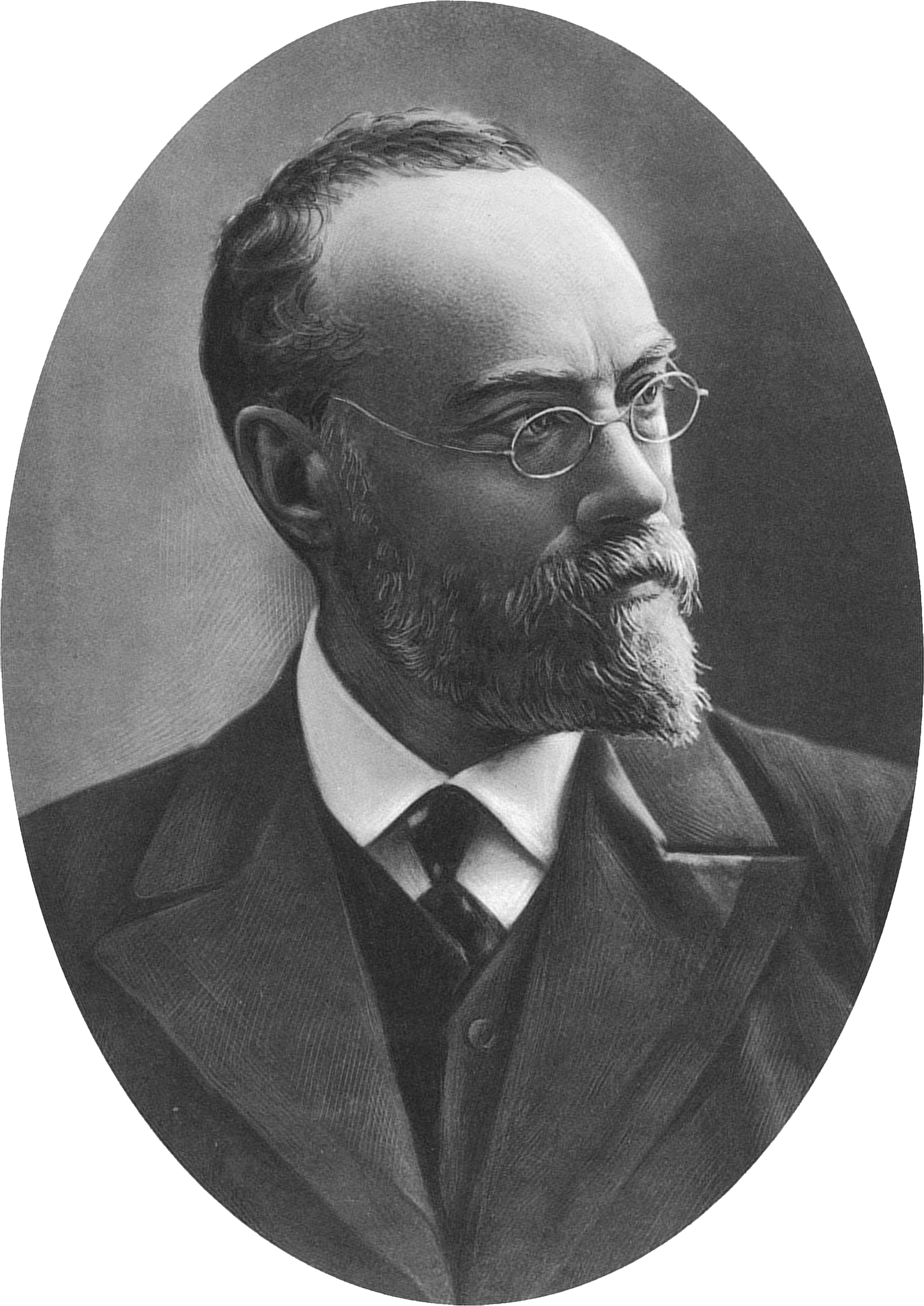 Nikolay Nikanorovich Dubovskoy (December 17, 1859 – February 28, 1918), a Russian landscape painter